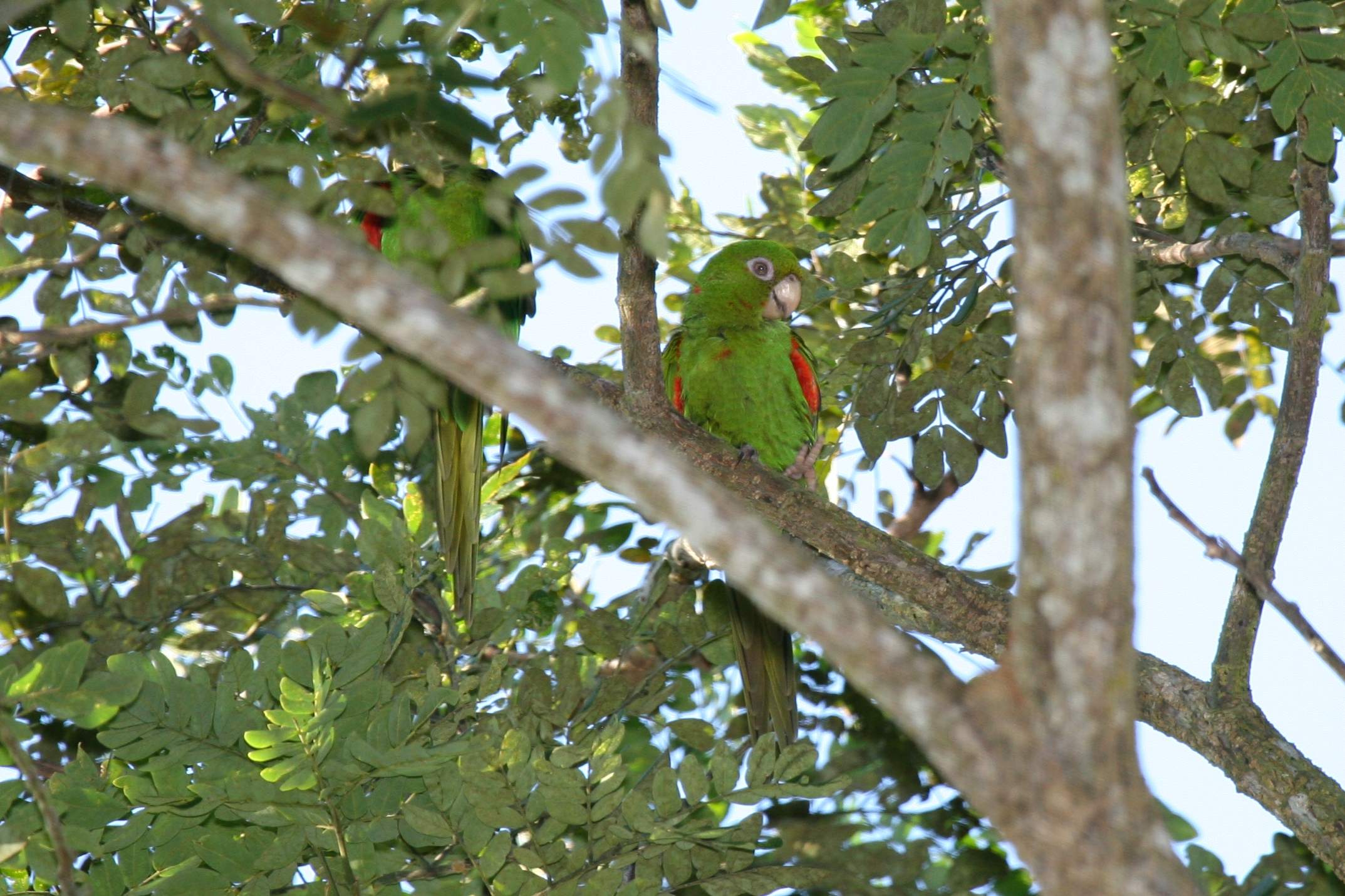 Cuban Parakeet, Conure De Cuba, or Aratinga Cubana (Aratinga euops). Two parrots in a tree.